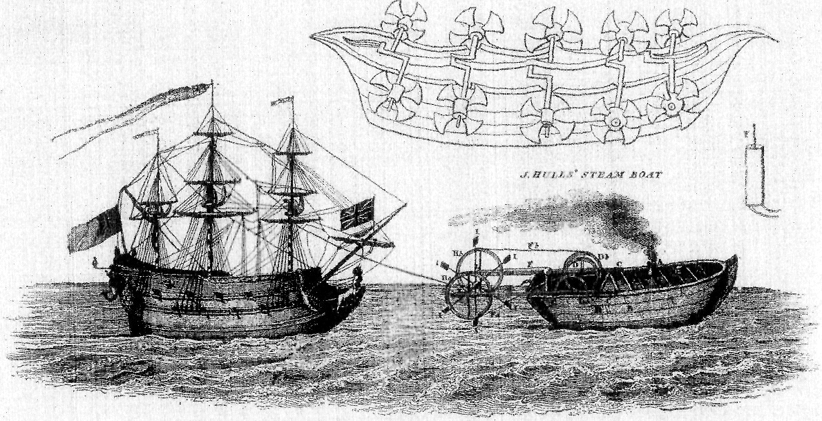 Jonathan Hulls' proposal for a paddle steamer, published in 1736